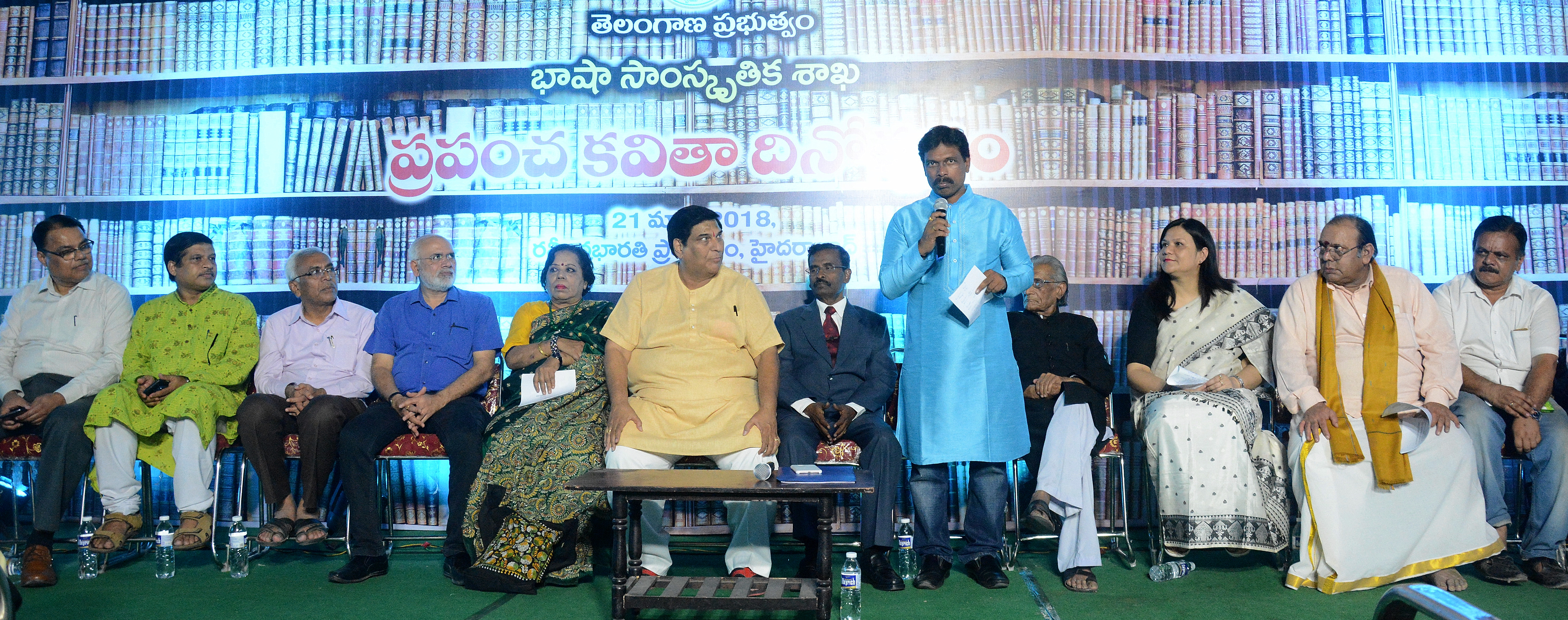 Poetry Reading on World Poetry Day Celebrations (2018) in Ravindra Bharathi